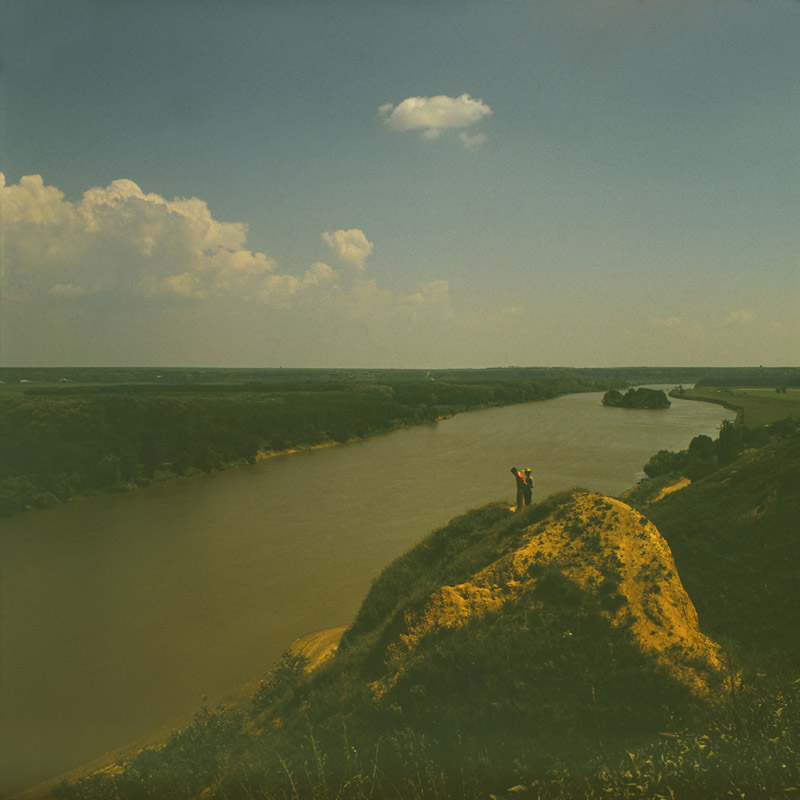 Near the village Serpeni (80-ies).